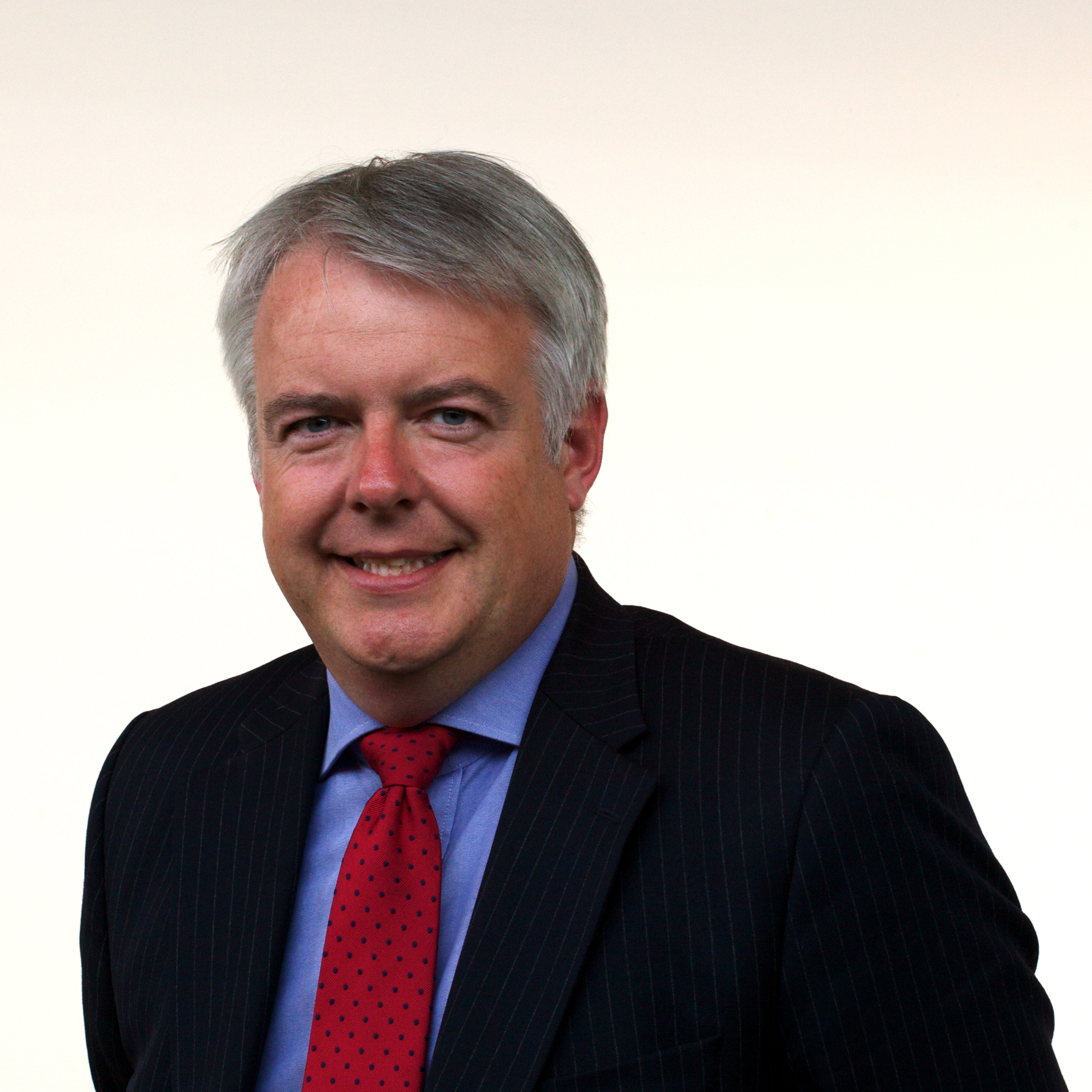 Carwyn Jones AM, member of the National Assembly for Wales.